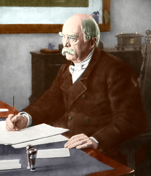 Otto von Bismarck in his study in the year 1886. Restoration and arbitrary colorisation of this picture.